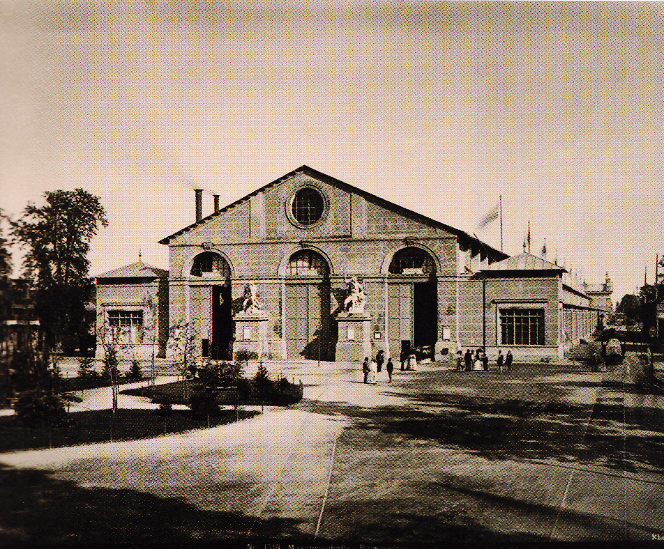 Machine hall Expo 1873